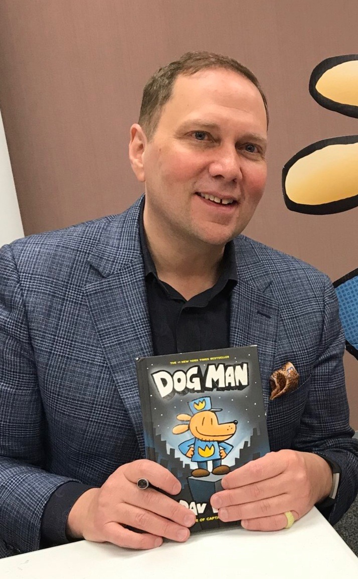 Dav Pilkey at the St. Louis County Library in 2018.